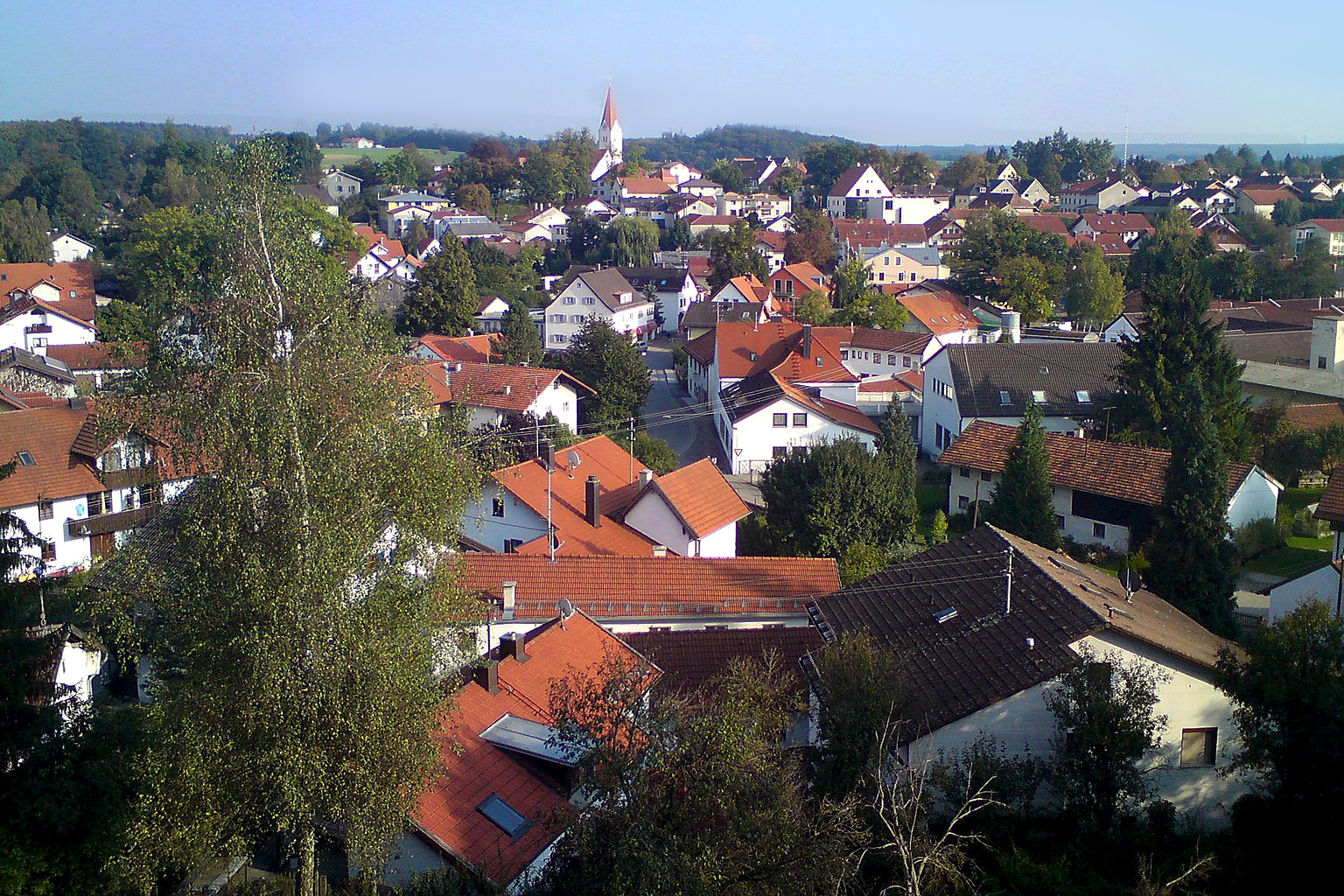 The village Isen in Bavaria.